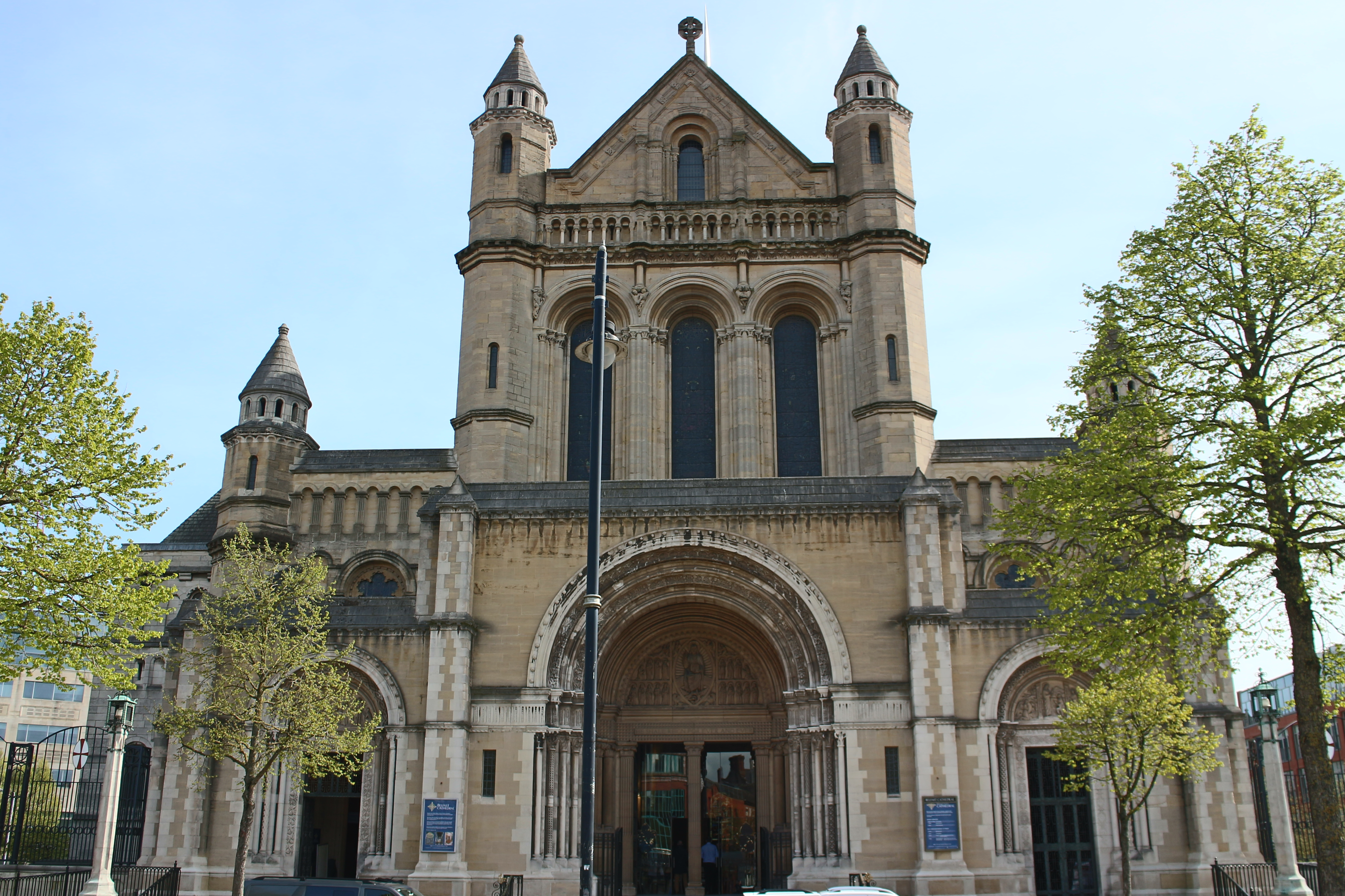 St Anne's Cathedral, Belfast